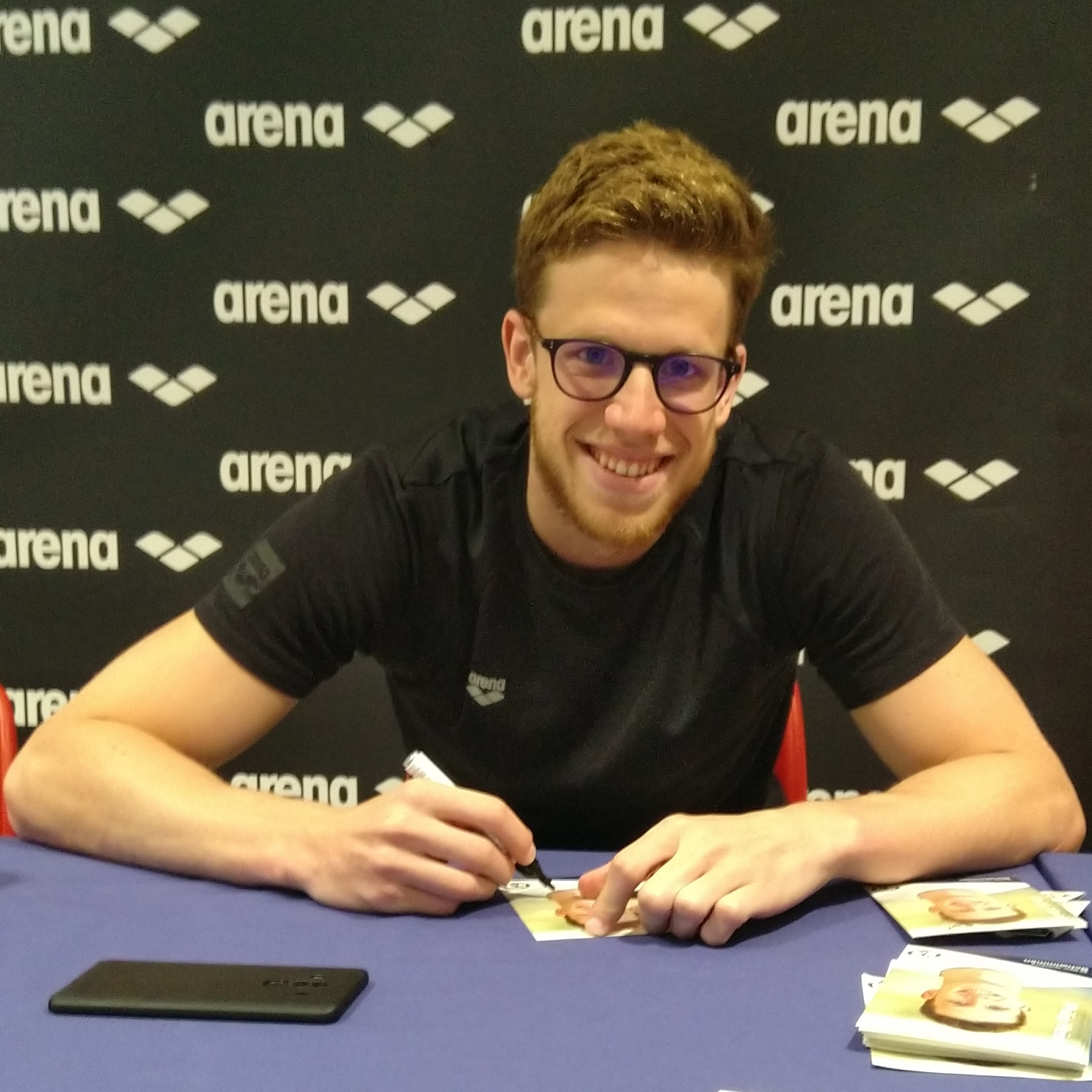 German swimmer Philip Heintz - autograph session at German National Championships 2018 in Berlin (July 21st 2018)